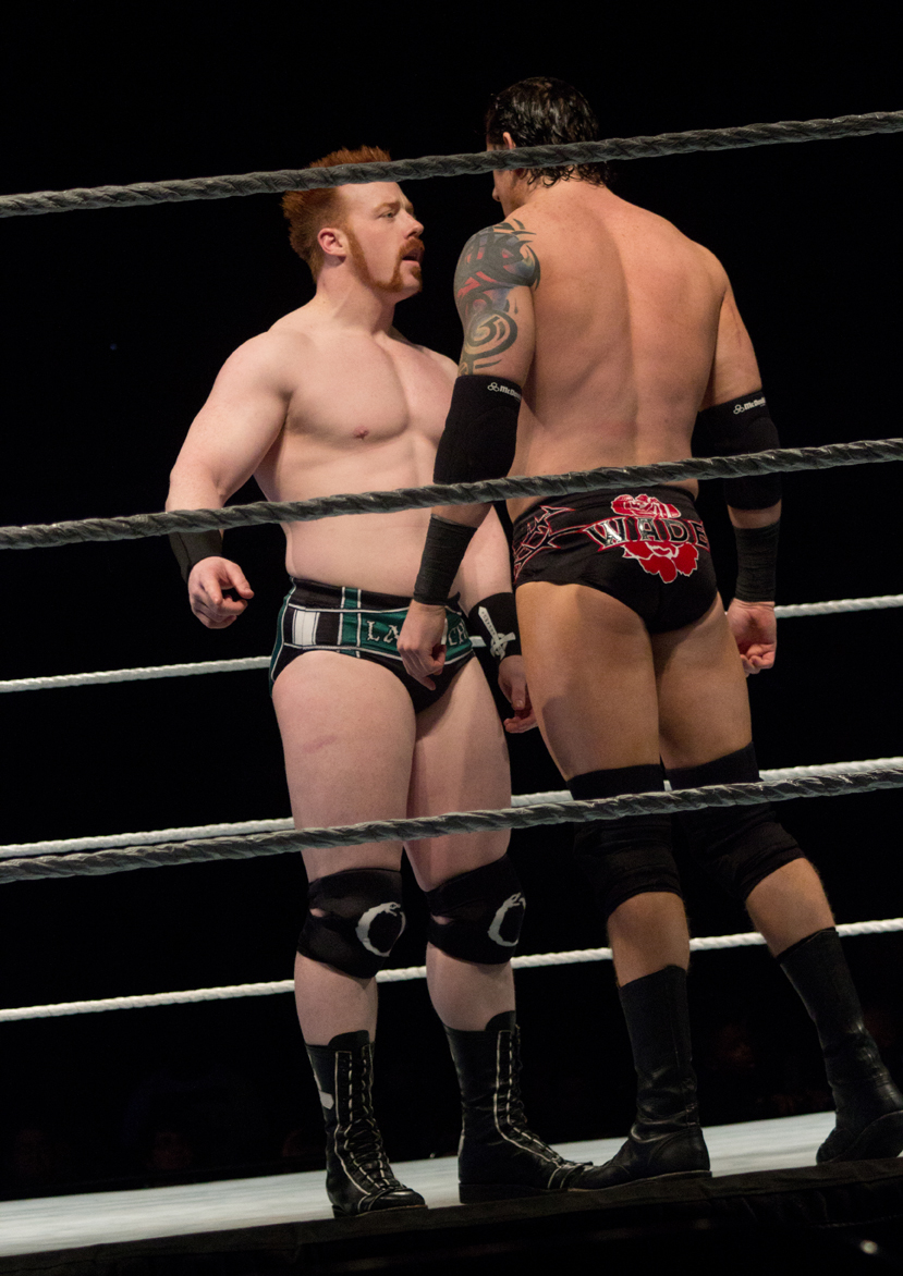 Face to Face